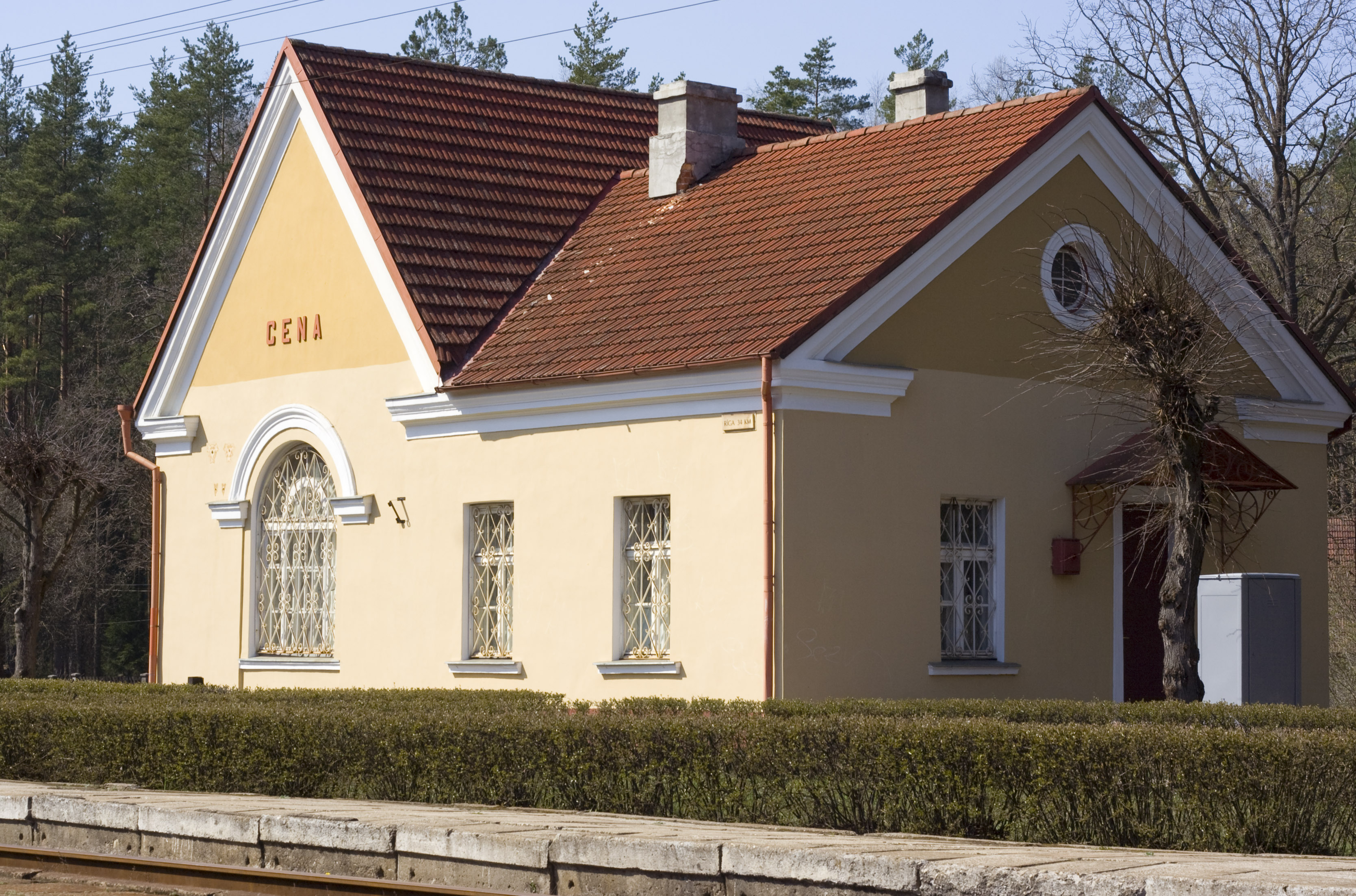 Cena train station. Located in the 34th kilometer of railway Riga - Jelgava, Latvia